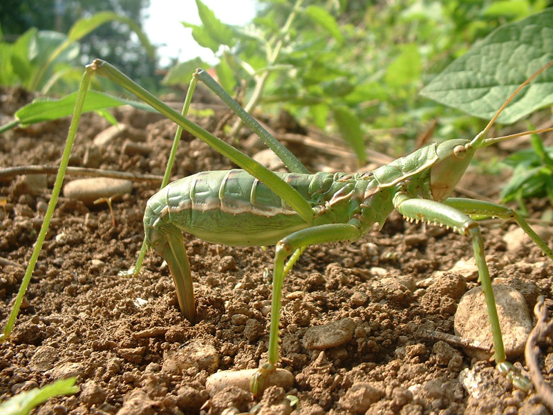 Saga pedo grasshoper lying eggs (Istria, Croatia)